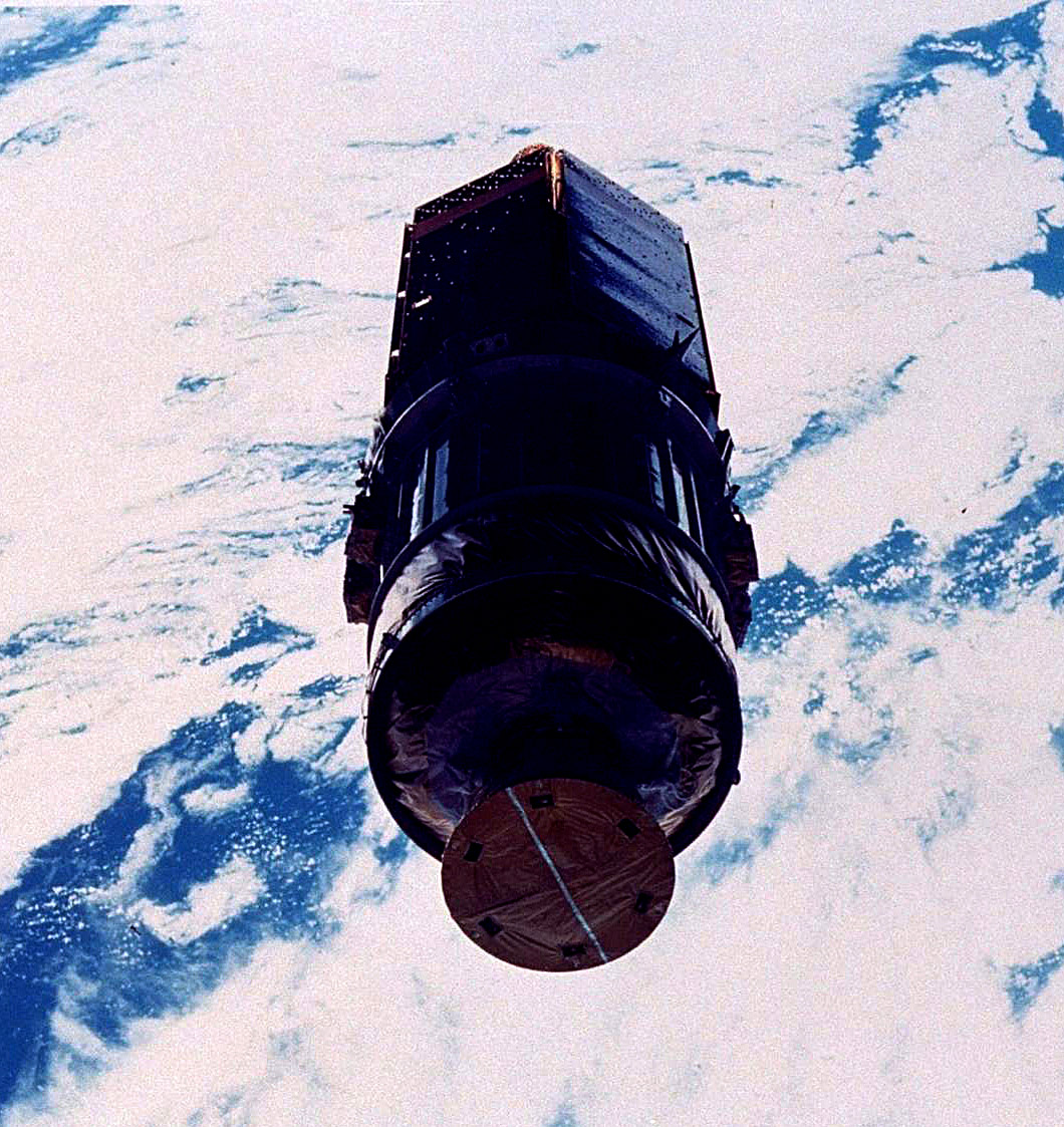 TDRS-C drifs over Discovery after deployment.